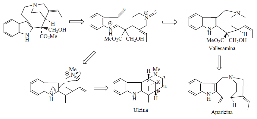 Uleine and apparicine biosynthetic scheme